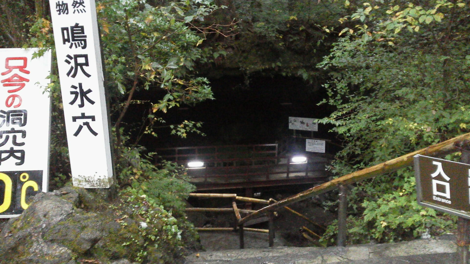 Stairs and passage towards the Narusawa ice cave in October 25,2016. Narusawa, Minamitsuru, Yamanashi, Japan.